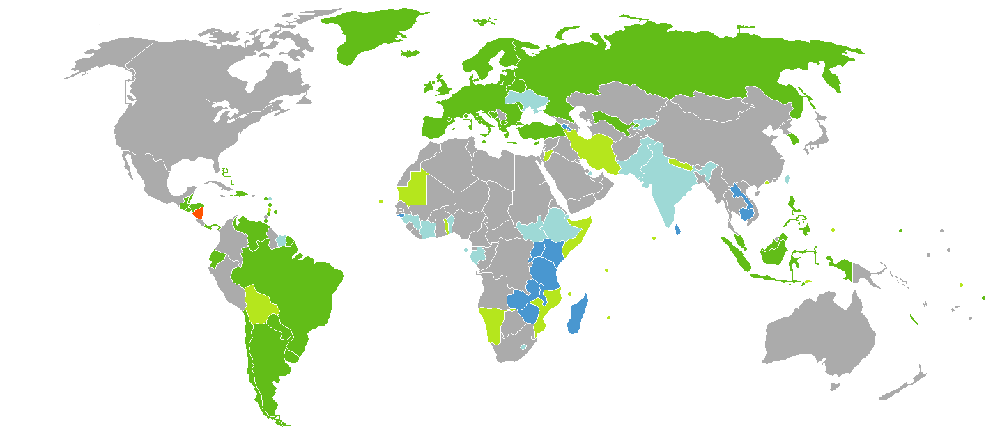 Visa requirements for Nicaraguan citizens Nicaragua Visa free access Visa on arrival Visa on arrival or eVisa eVisa Visa required